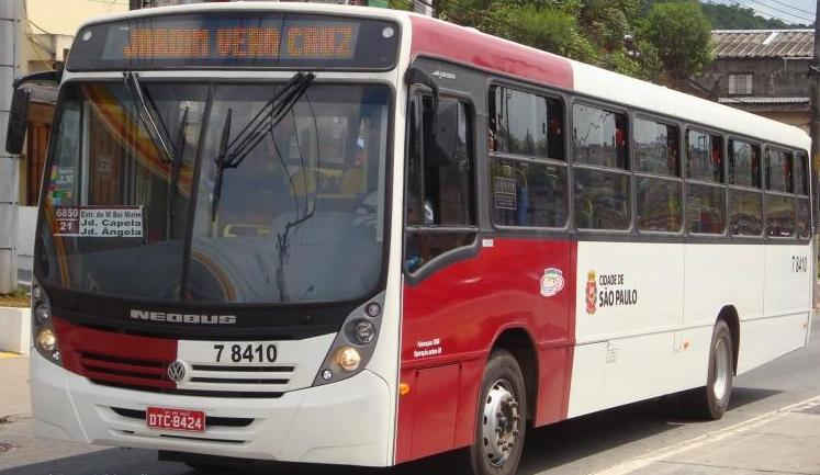 Neobus Mega bus (reg. DTC-8424, #7 8410) with Volkswagen Volksbus chassis in São Paulo City, Brazil. CooperPam operator.